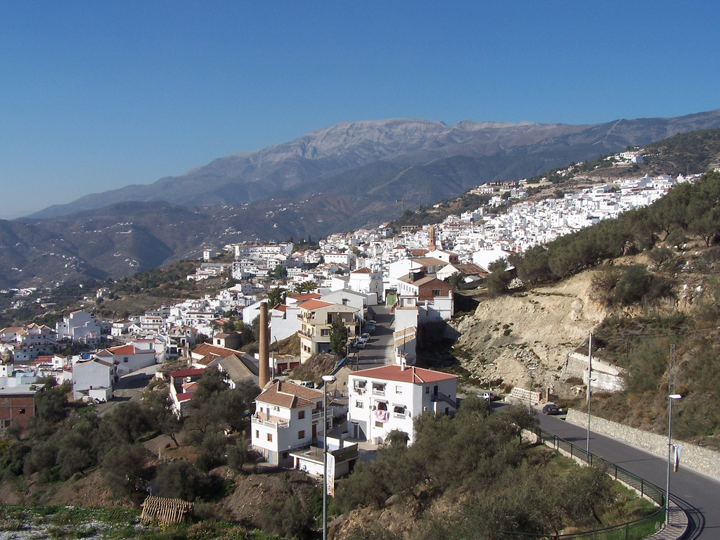 Cómpeta, Málaga, Spain